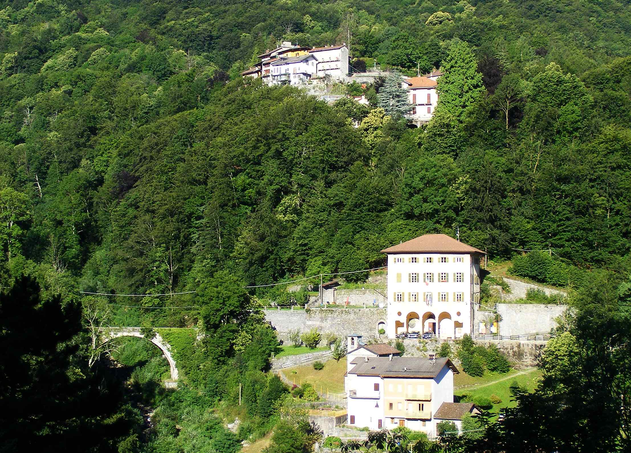 San Paolo Cervo (BI, Italy): panorama